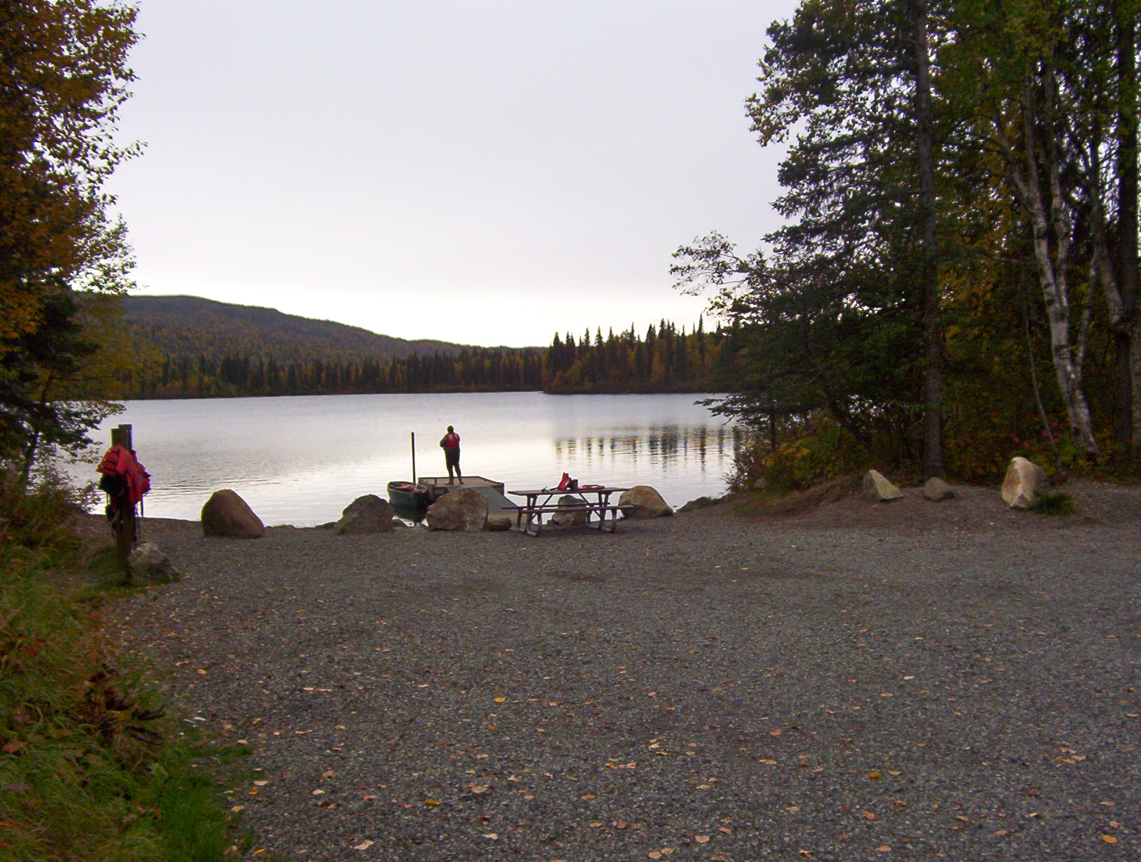 Byers Lake, Denali State Park, Alaska